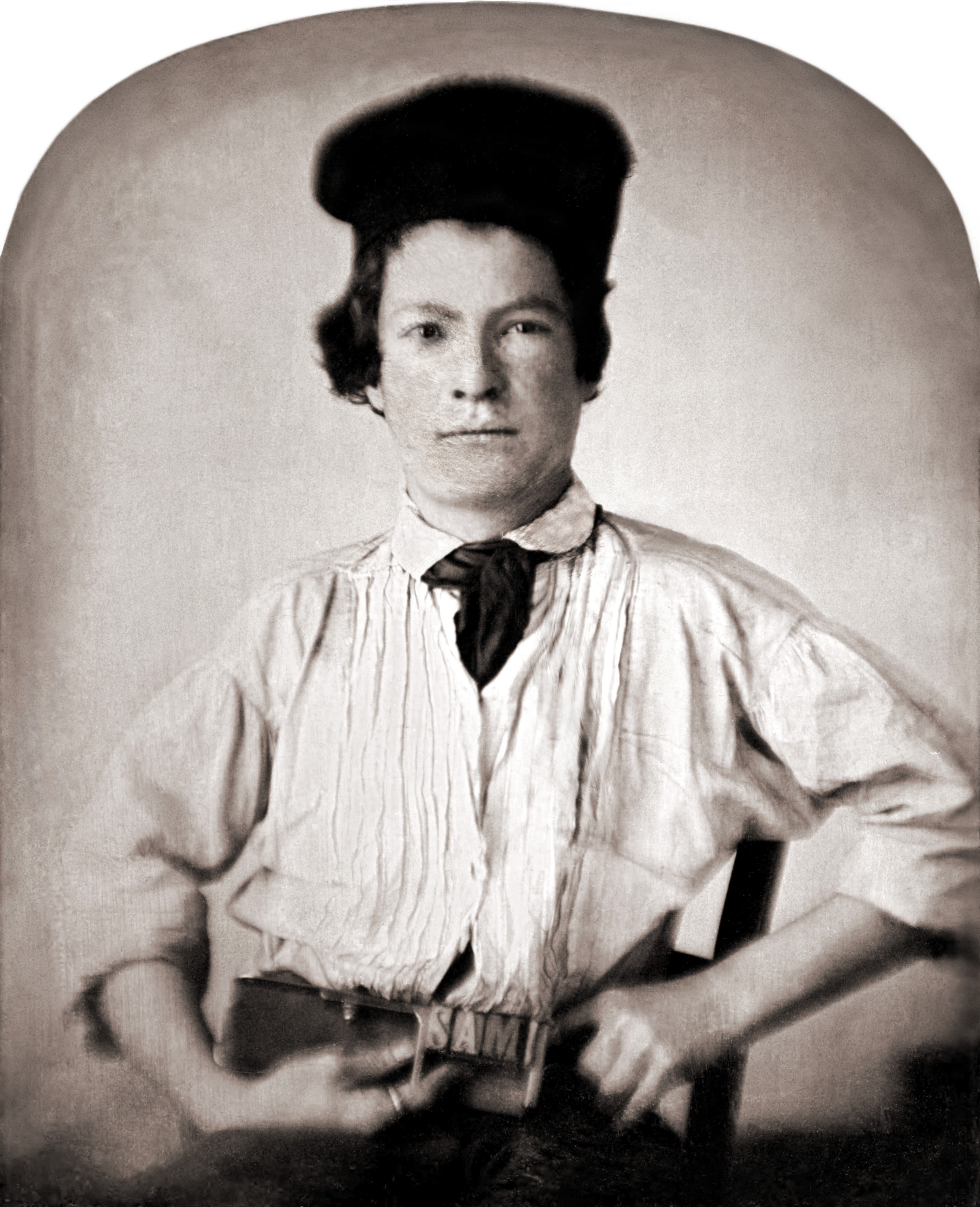 Portrait of Samuel Clemens as a youth holding a printer's composing stick with letters SAM. Daguerreotype; sixth plate. Plate mark: Scovill. Inscribed in case well: G.H.[?] Jones [or Jonco?] / Hannibal Mo / 1850 / Nov. 29th. On case pad: Samuel L. Clem-/ens - [illegible] / Taken Dec. 1850 / Age 15.